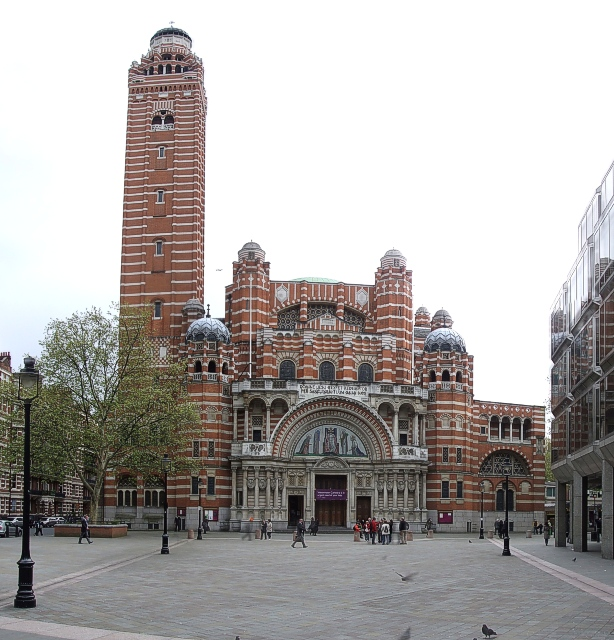 Westminster Cathedral The Roman Catholic Westminster Cathedral is dedicated to "The Most Precious Blood of Our Lord Jesus Christ" - which must be one of the longest dedications for any place of worship in Britain. This arresting building was designed by the Victorian architect John Francis Bentley, and it was constructed at the turn of the last century, between 1895 and 1903. It is in an unusual style for a British church owing more to the Byzantine style more popular in the Eastern Church. The campanile (bell tower) is reminiscent of ones seen in Italy, such as in Florence or Siena. The inscription, in Latin, above the Romanesque arch reads "Domine Jesu Rex et Redemptor per Sanguinem Tuum Salva Nos" - which I think translates roughly as "Lord Jesus, King and Redeemer, through Your Blood You save us"